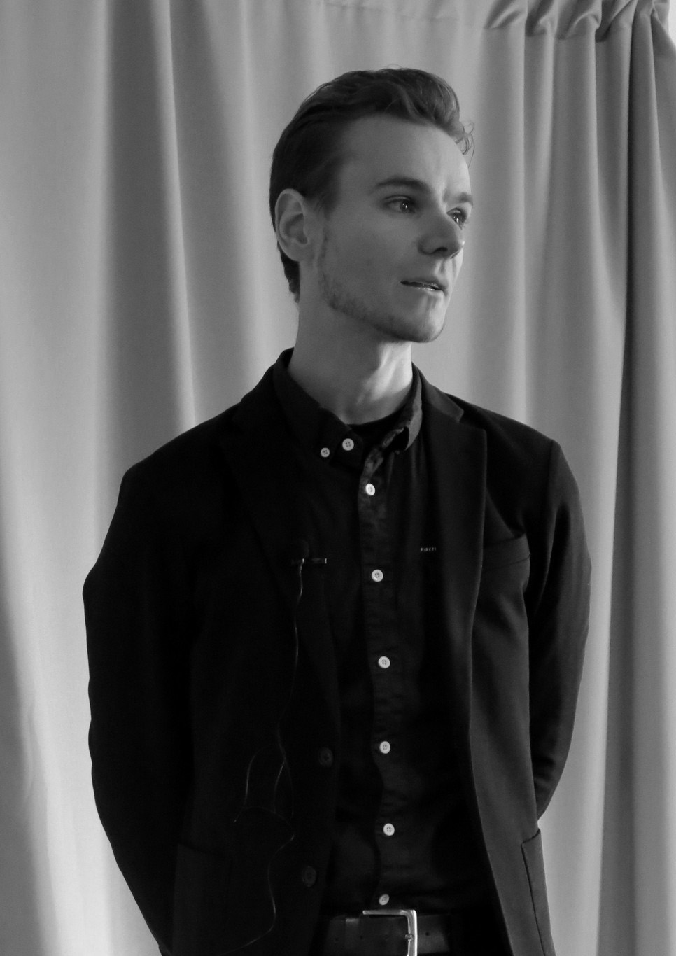 Chris Lamb presenting on Reproducible Builds at the FLOSSUK conference in Edinburgh, April 2018